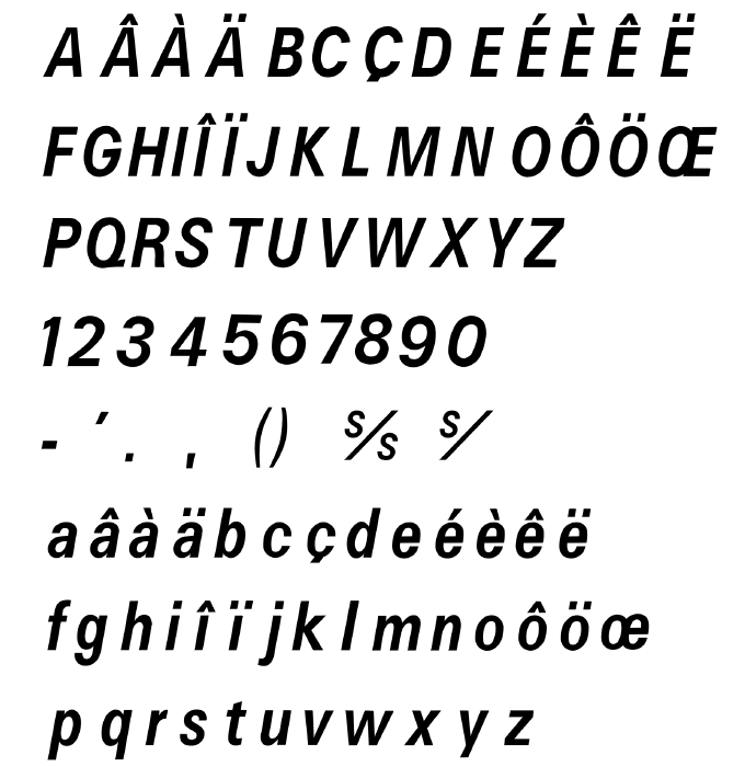 Character font L4 used on French road signs.